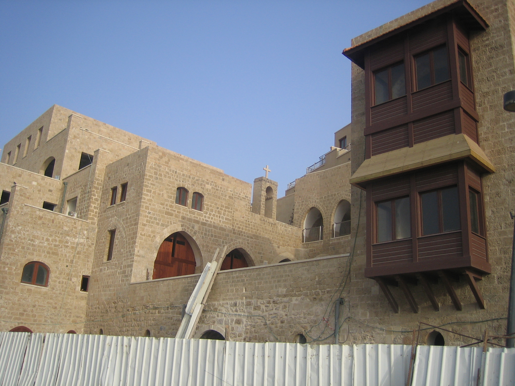 The Saint Nicholas Armenian Monastery in Jaffa, Israel.